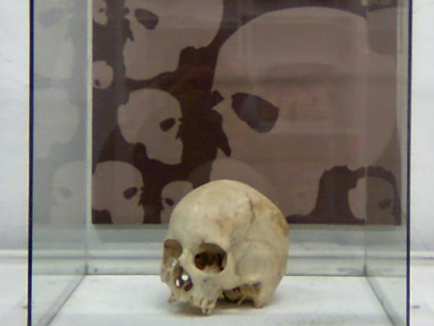 muestra del museo de criminalistica UN